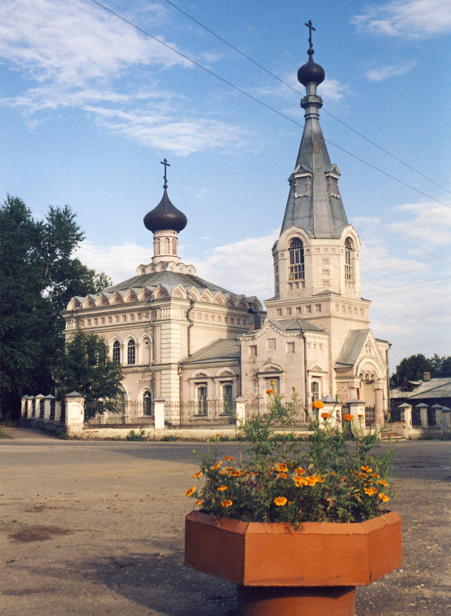 Saint Nicola Church of Old Believers